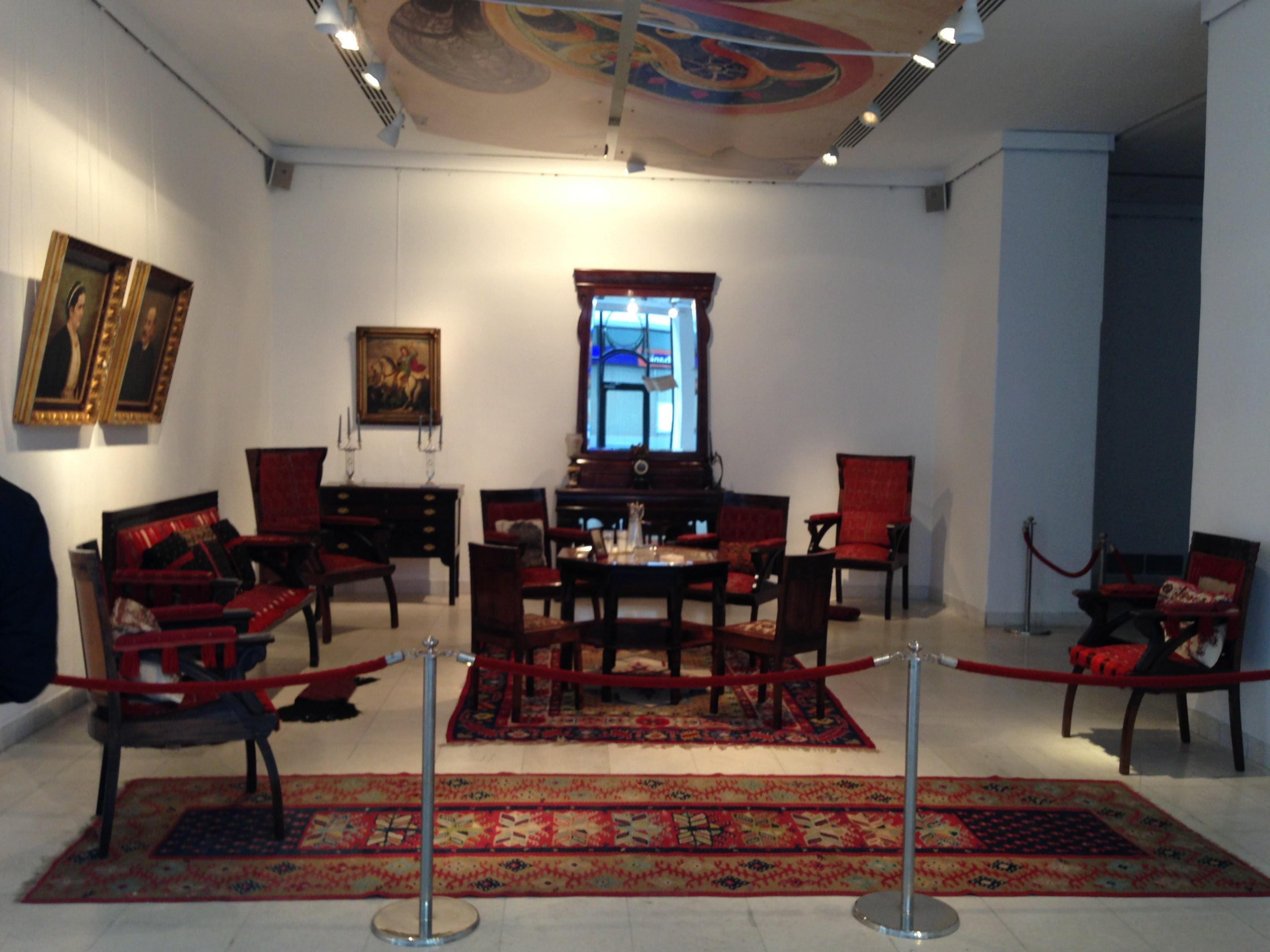 Gallery SANU, Belgrad, Serbia. Српски (ћирилица): Једна од изложбених поставки у Галерији САНУ, Београд, Србија (2015).